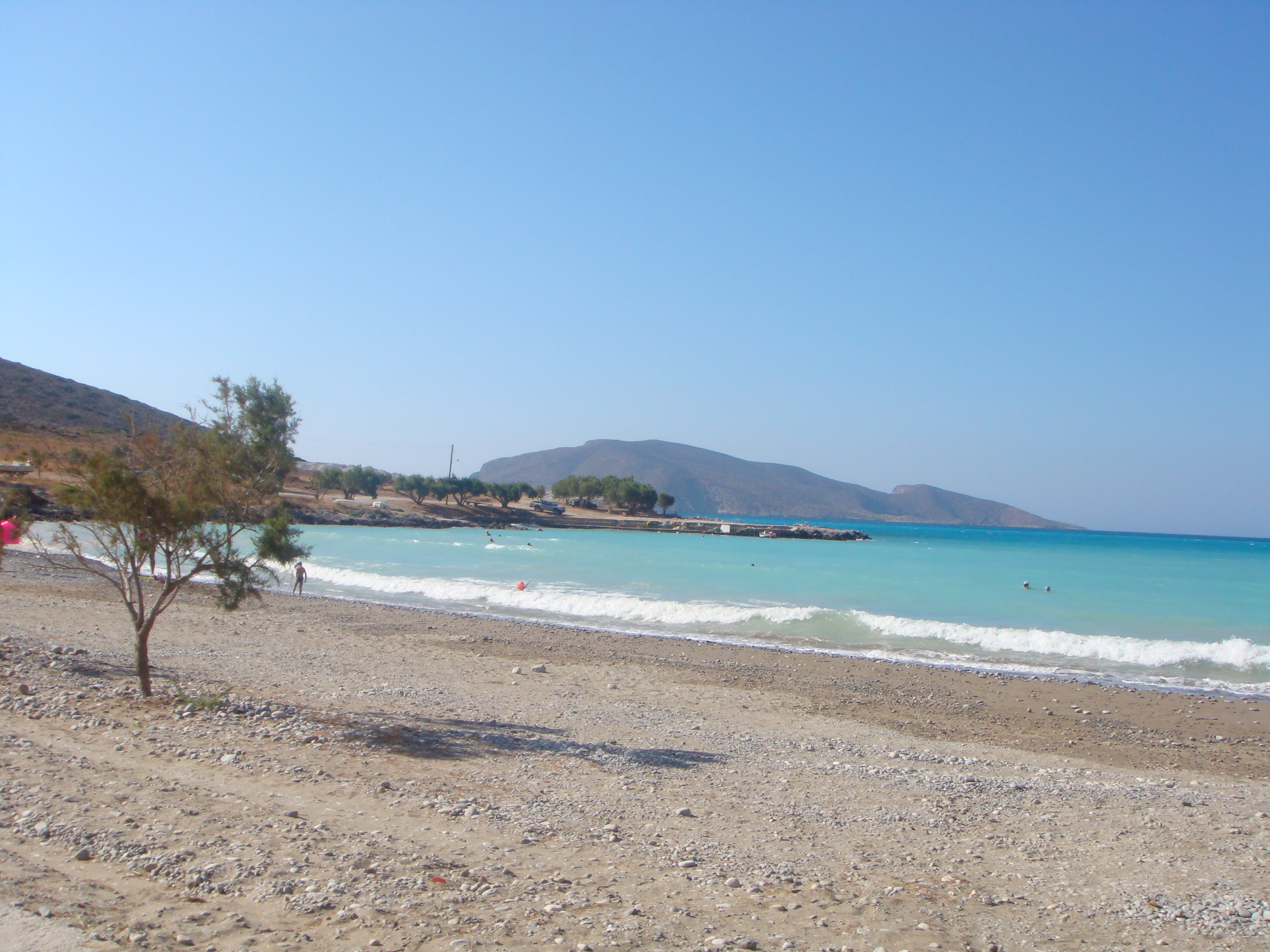 A view from Tholos beach, in Lasithi prefecture.